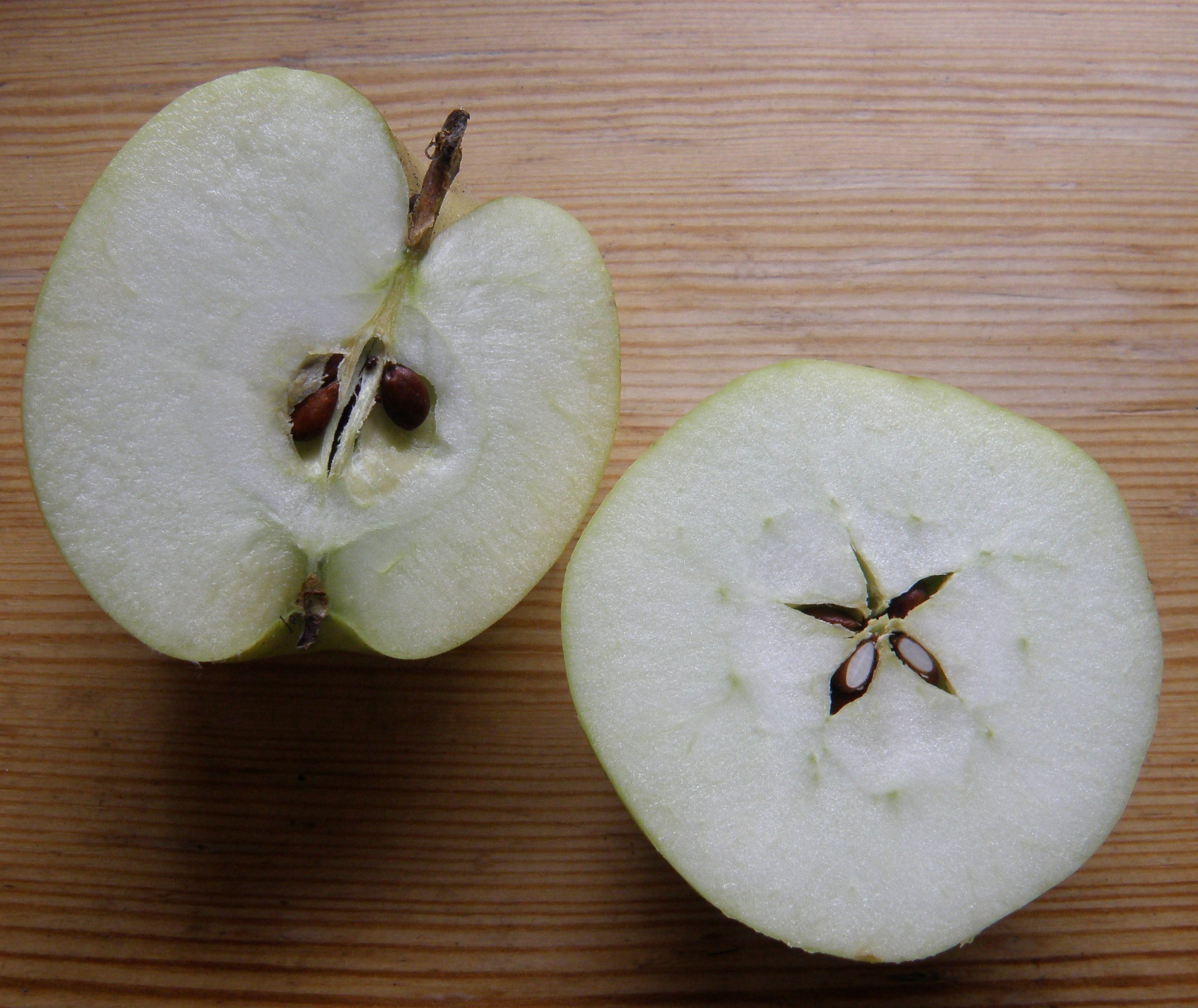 Antonovka